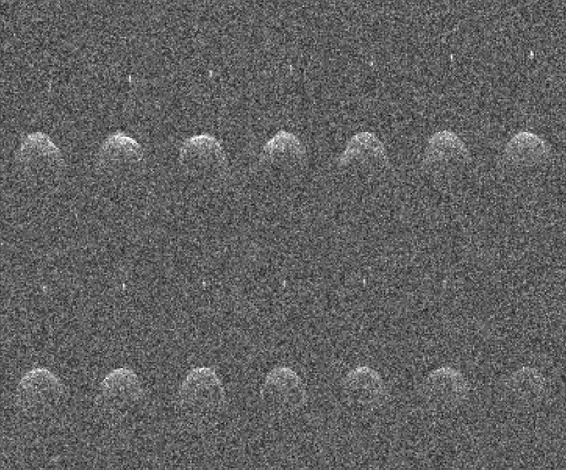 Fourteen sequential Arecibo radar images of the near-Earth asteroid (65803) Didymos and its moonlet, taken on 23, 24 and 26 November 2003. NASA’s planetary radar capabilities enable scientists to resolve shape, concavities, and possible large boulders on the surfaces of these small worlds. Photometric lightcurve data indicated that Didymos is a binary system, and radar imagery distinctly shows the secondary body.